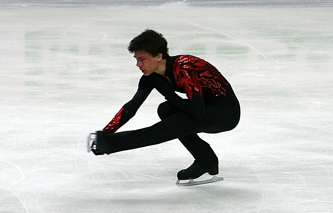 Jorik Hendrickx at the 2011 World Figure Skating Championships